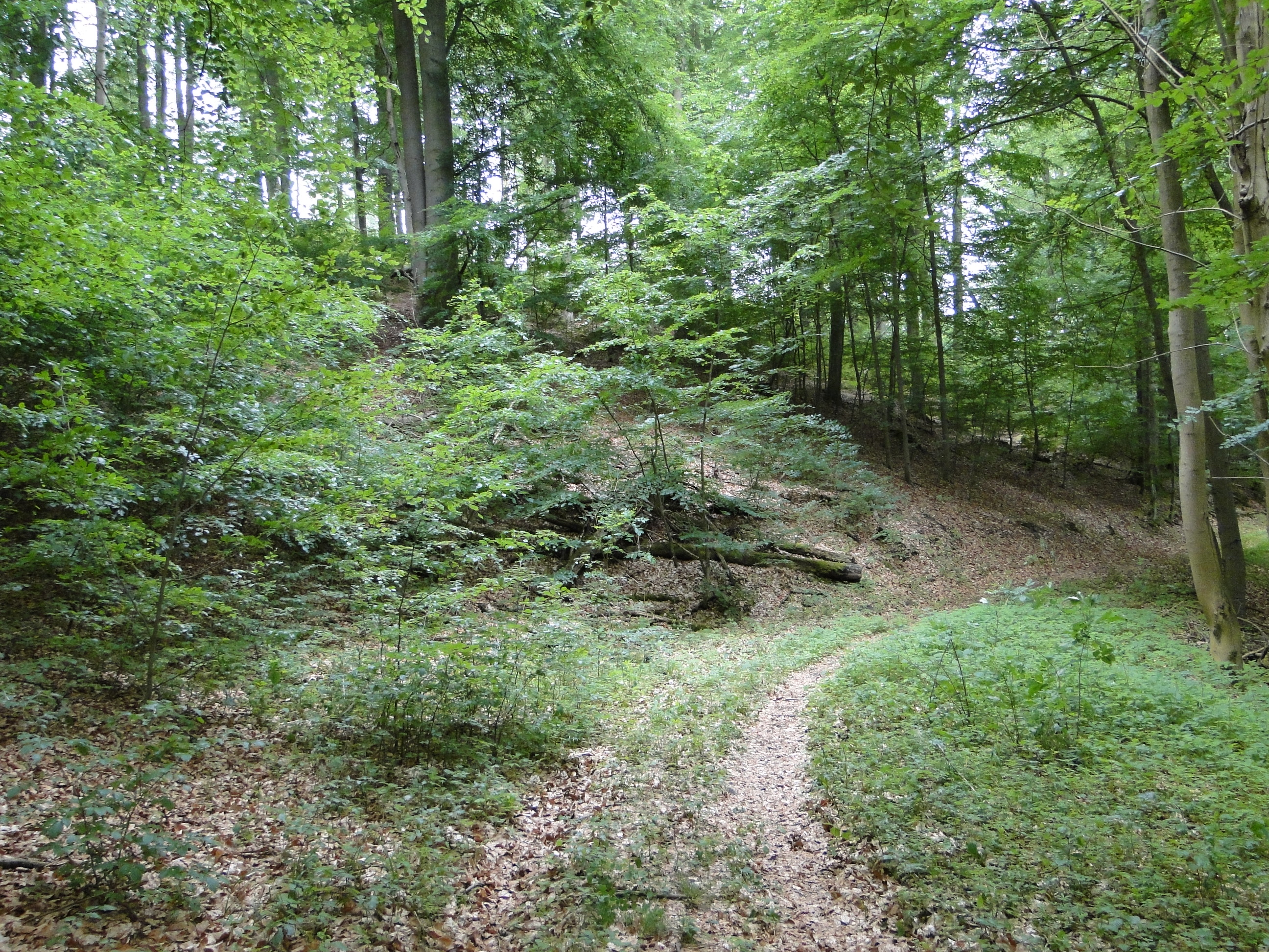 Nature reserve Kläden near Kläden, district Parchim, Mecklenburg-Vorpommern, Germany